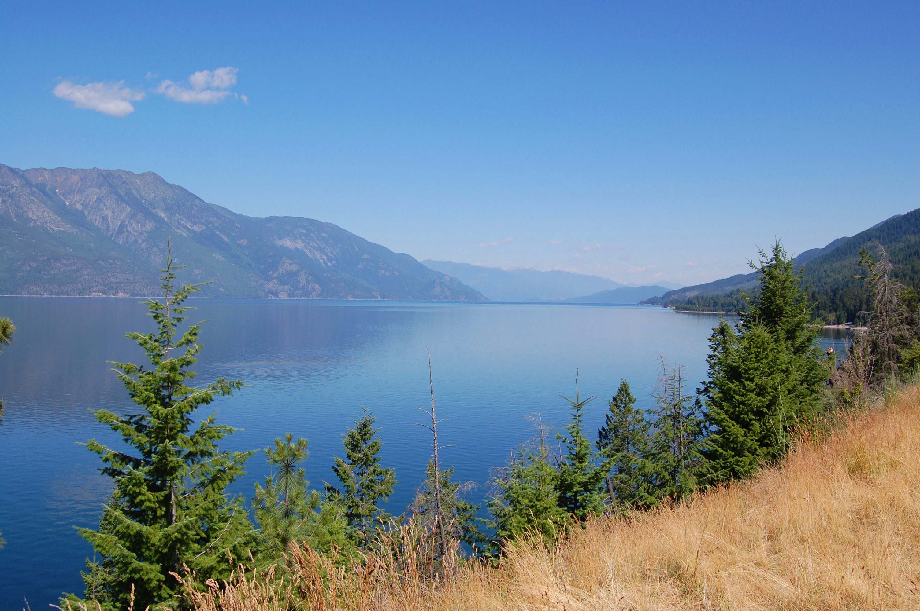 Kootenay Lake south arm from near Sirdar.